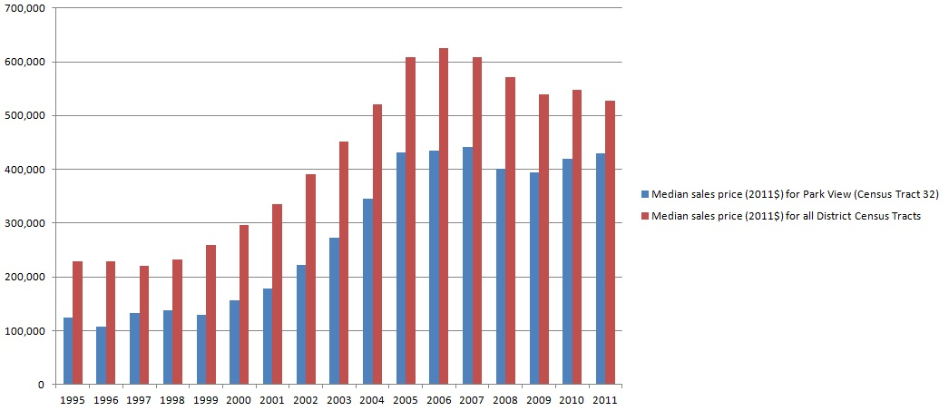 Median sales prices in Park View, Washington, D.C.